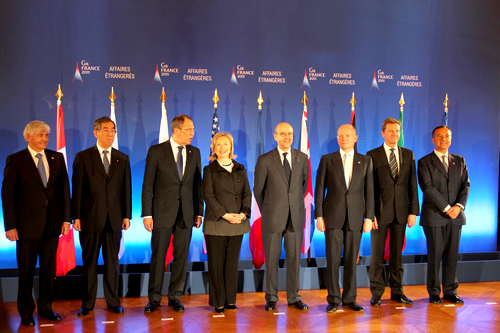 The member of the G8 Foreign Ministers meeting pose for photos in Paris City, Paris Department, Île-de-France Region on March 14, 2011.